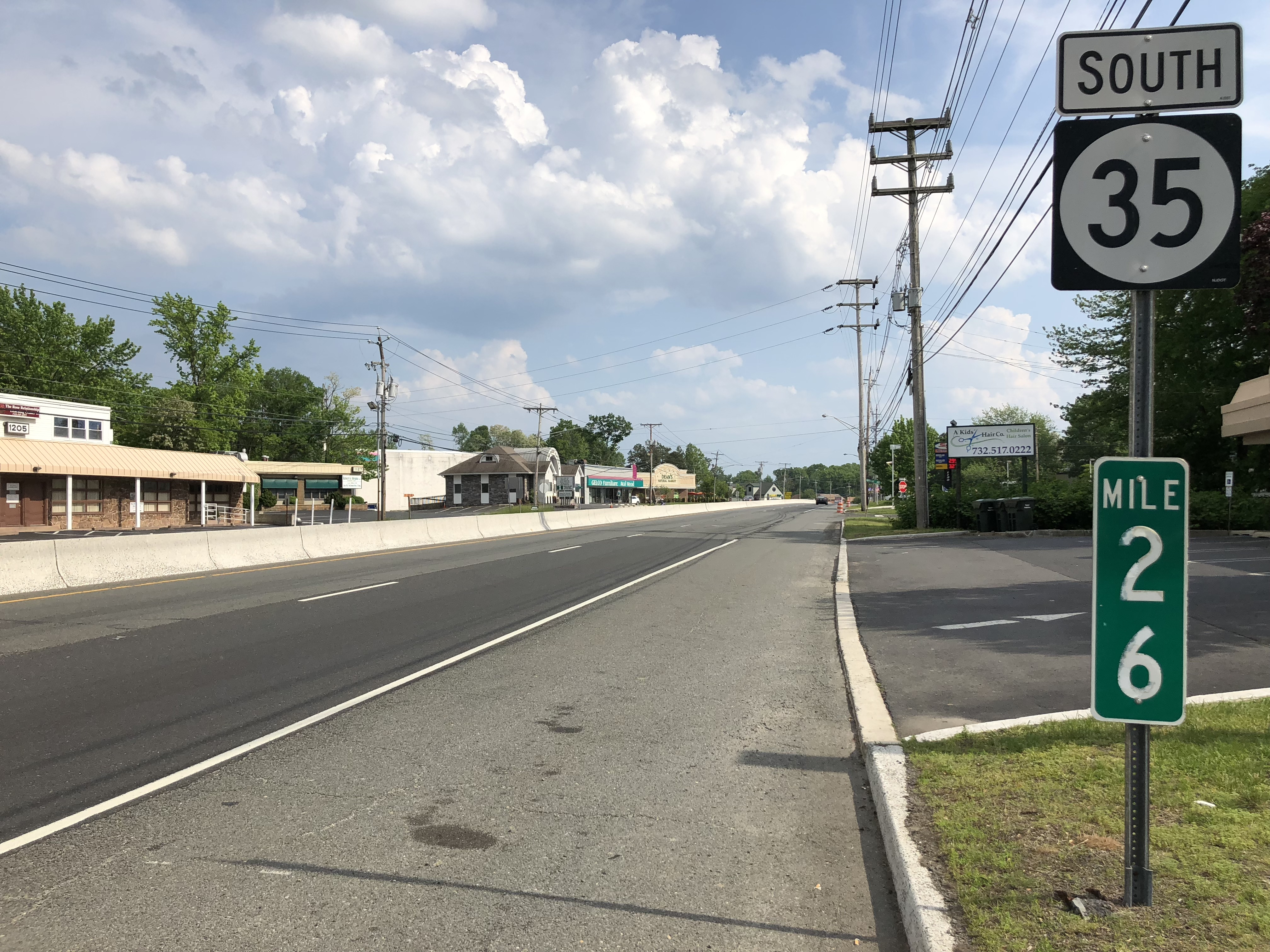 View south along New Jersey State Route 35 at Allenhurst Avenue in Ocean Township, Monmouth County, New Jersey